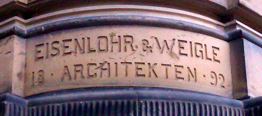 Architects’ inscription on Villa Kienlin, Stuttgart